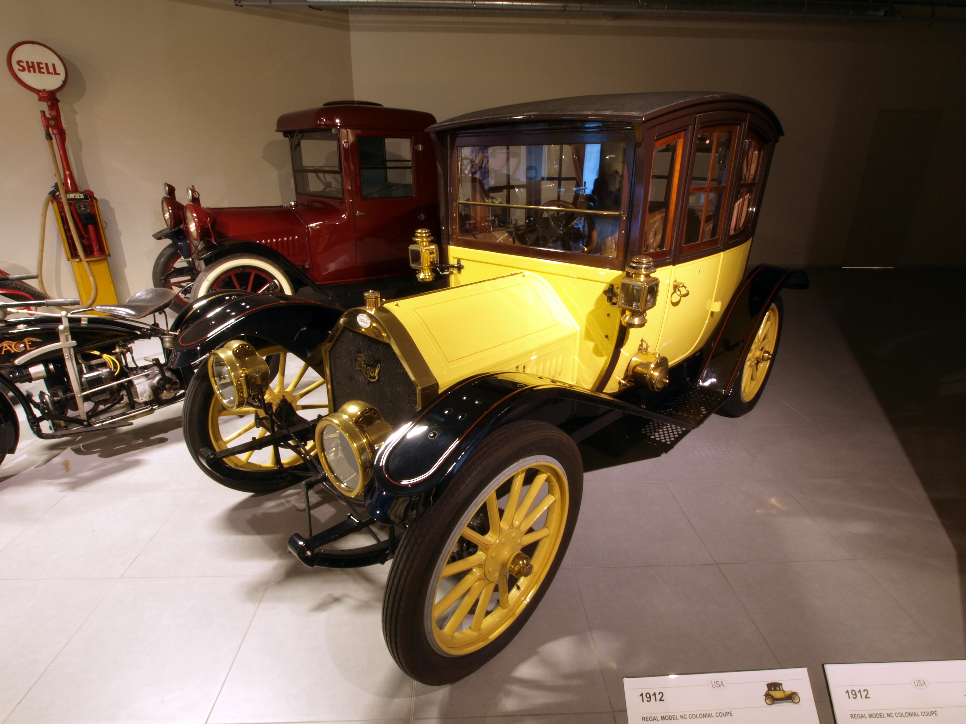 Photographed at the Louwman museum / Louwman Collection, The Netherlands.